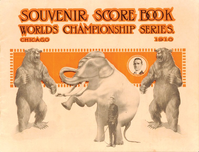 A program of the 1910 World Series.